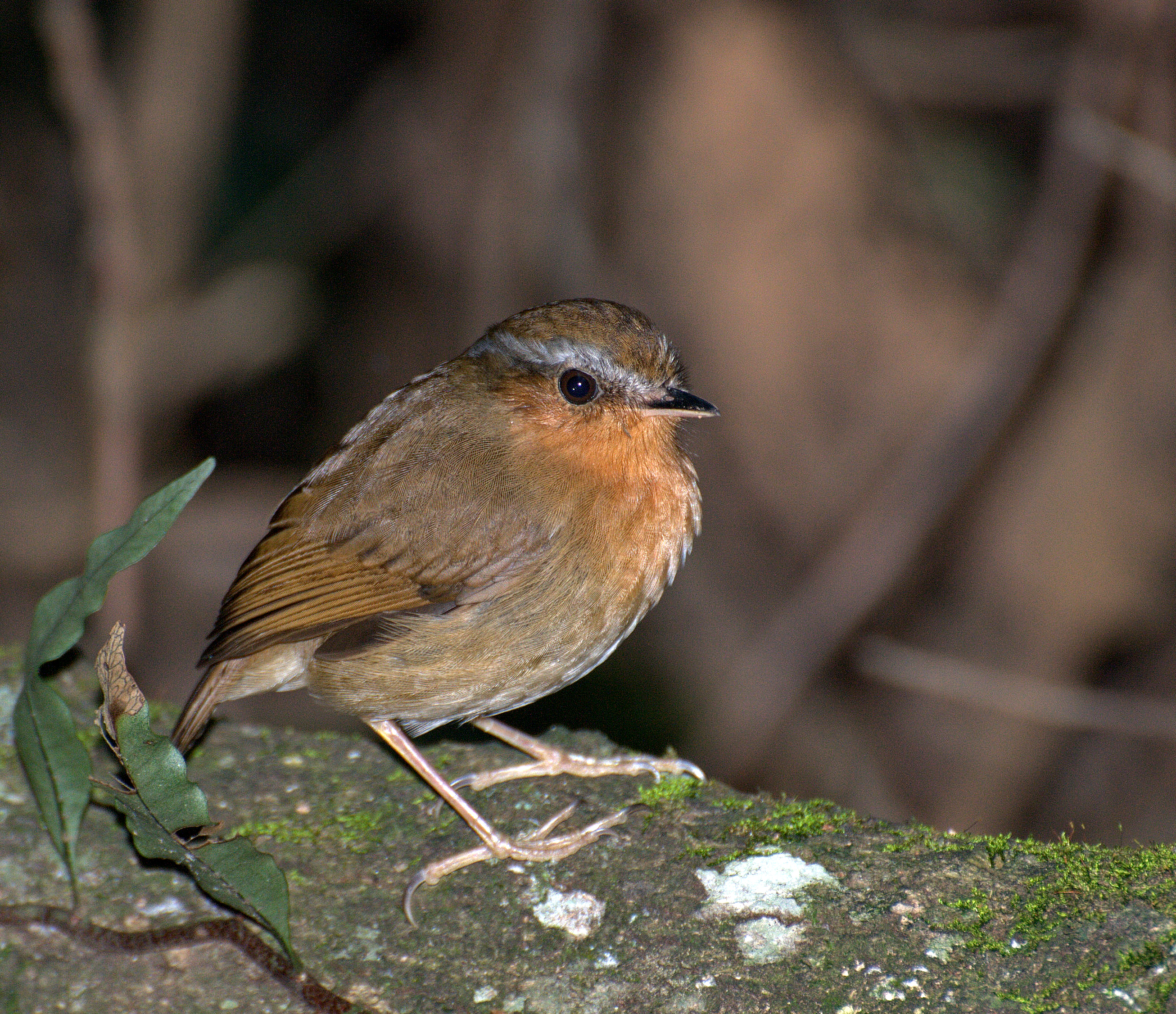 A Rufous Gnateater at Parque Estadual Turístico da Cantareira, São Paulo, Brazil.